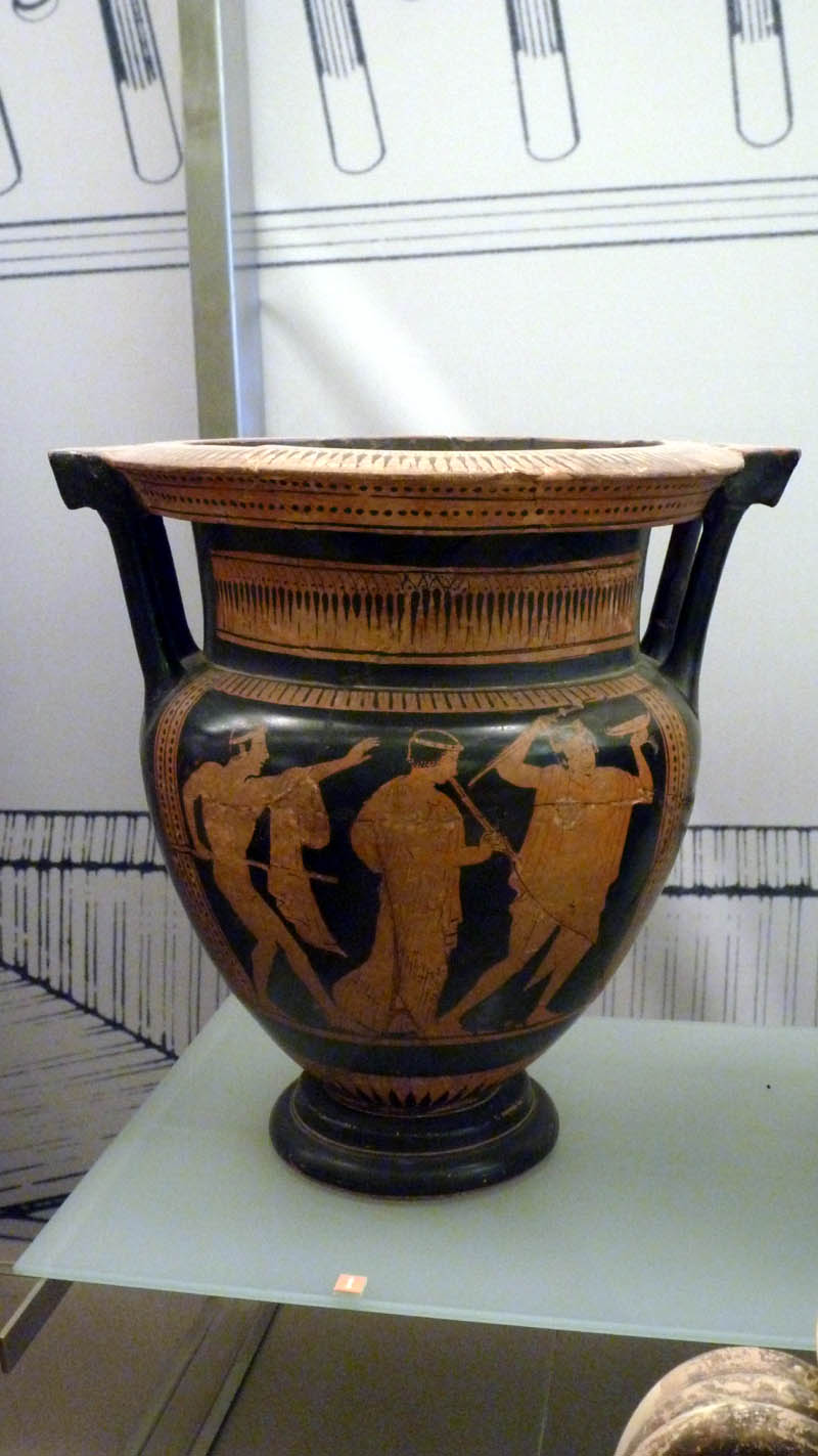 Greek krater found in Ampurias, Girona, Spain.